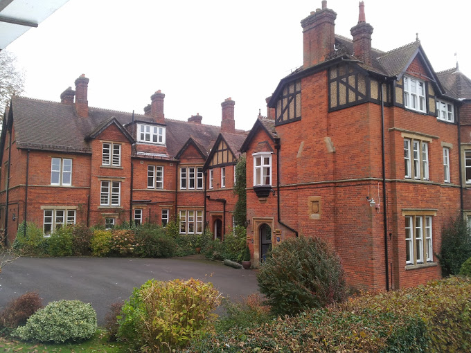 Image of the old school building at Hazelwood School Oxted